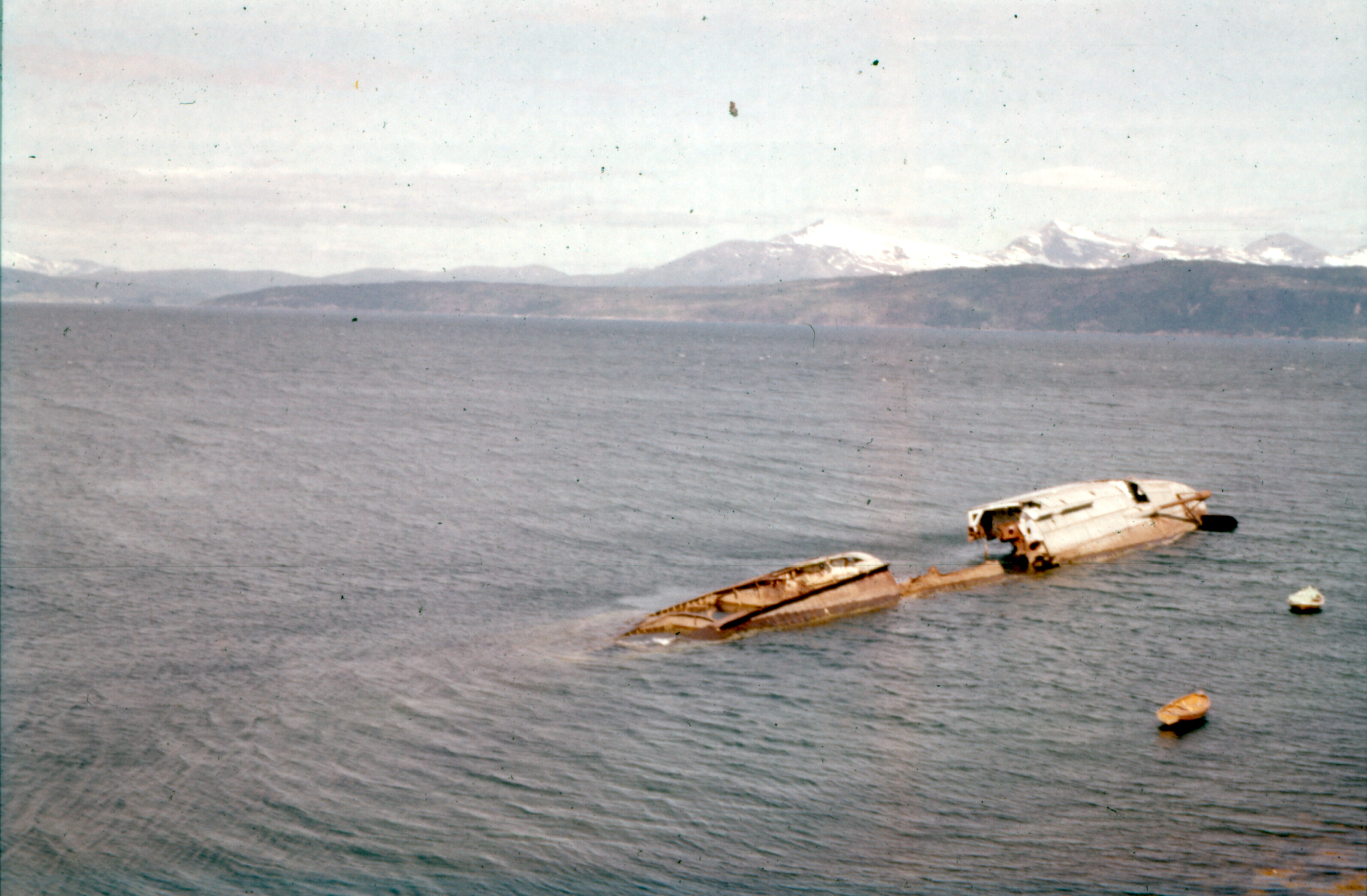 The wreckage of the British destroyer HMS Hardy photographed in July 1962.